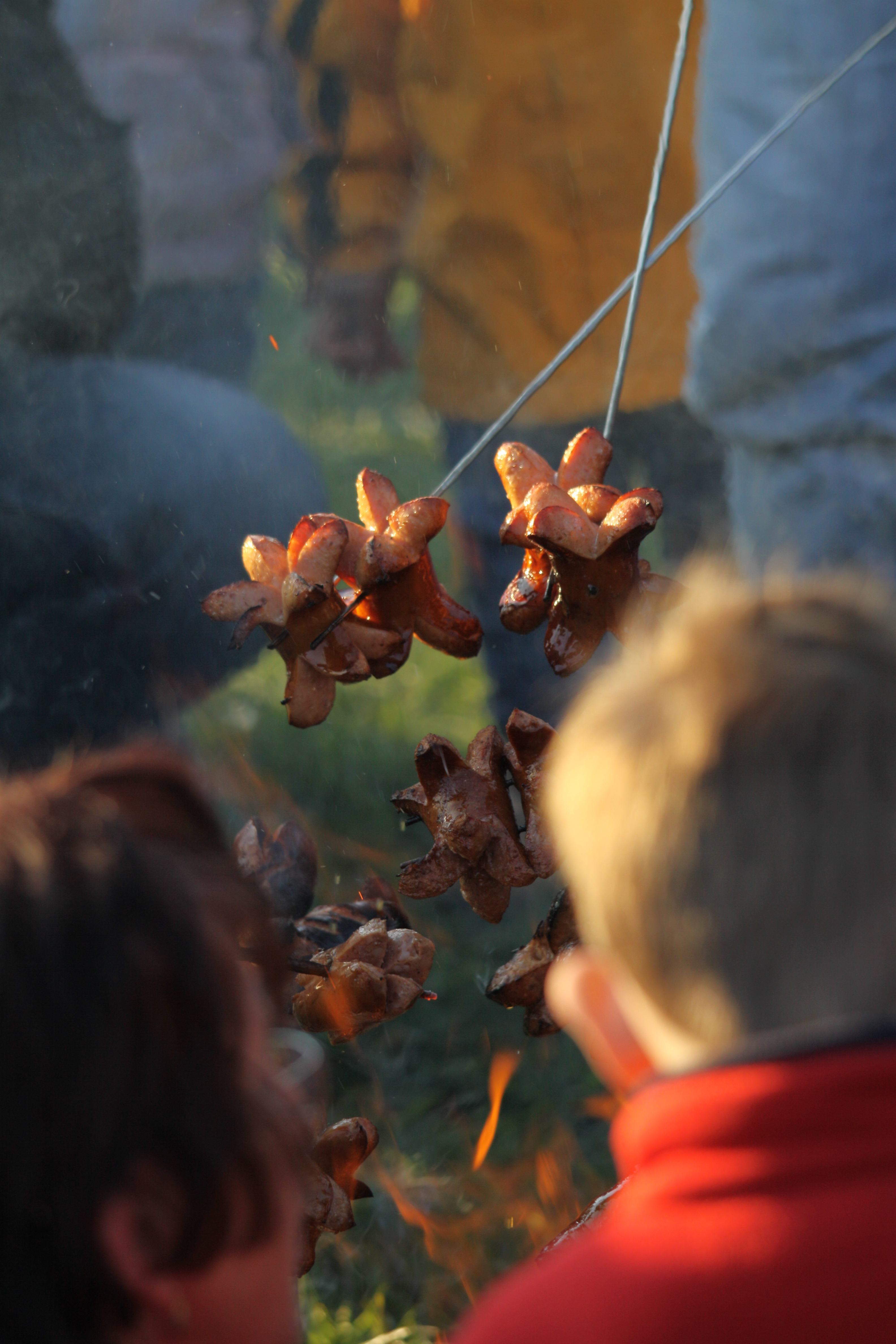 Walpurgis Night in Jesenice in Prague-West District, Czech Republic